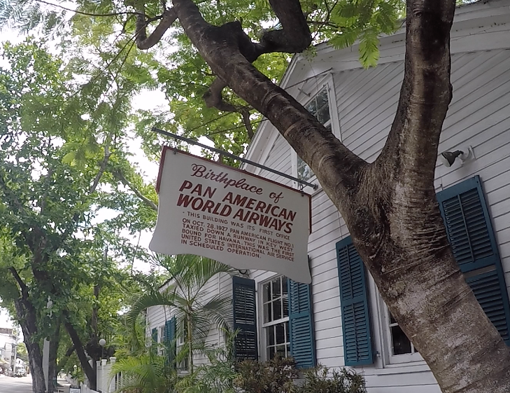 A placard outside Pan Am's first office in Key West